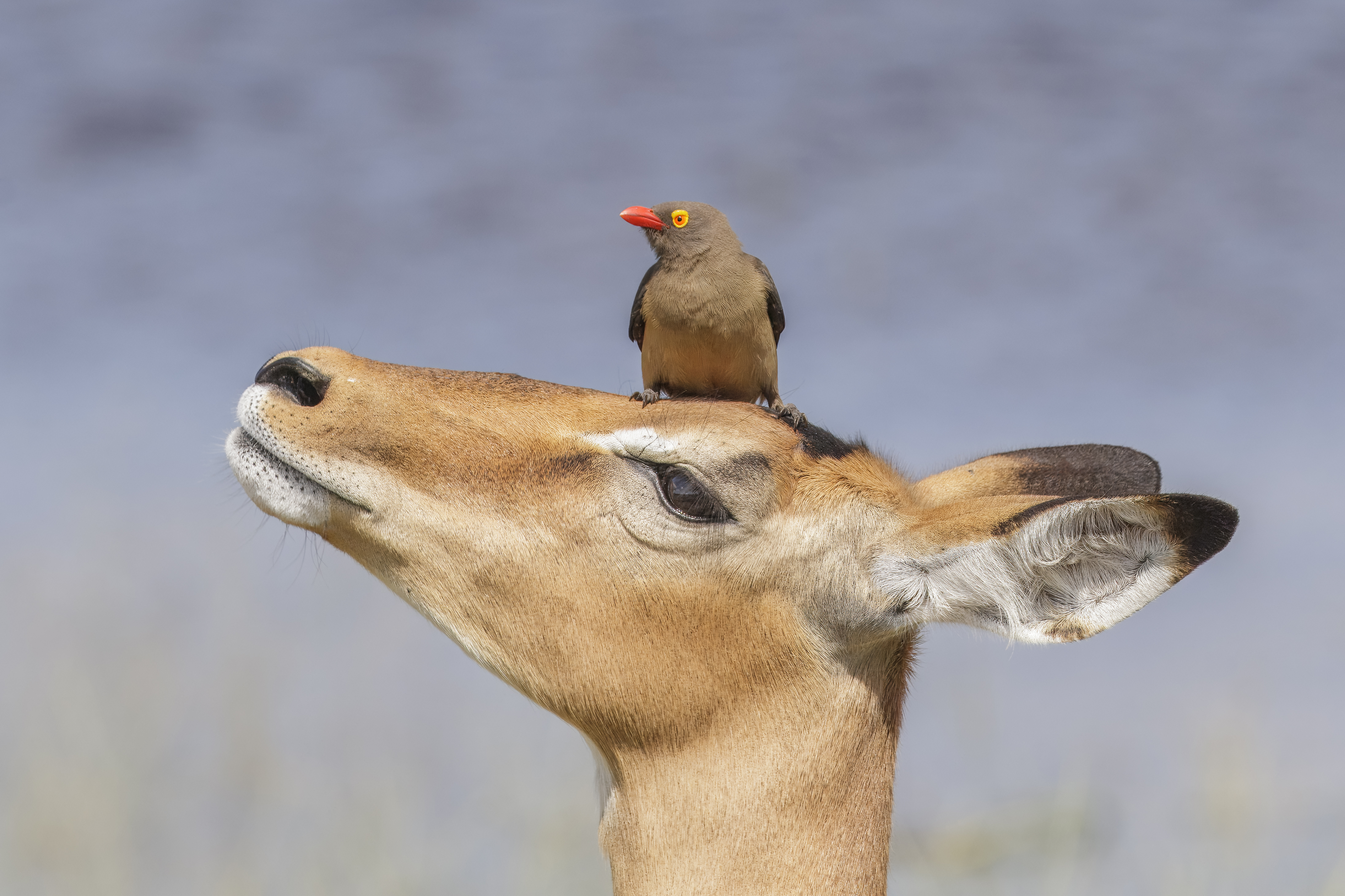 Red-billed oxpecker (Buphagus erythrorhynchus) on female impala (Aepyceros melampus), Chobe National Park, Botswana